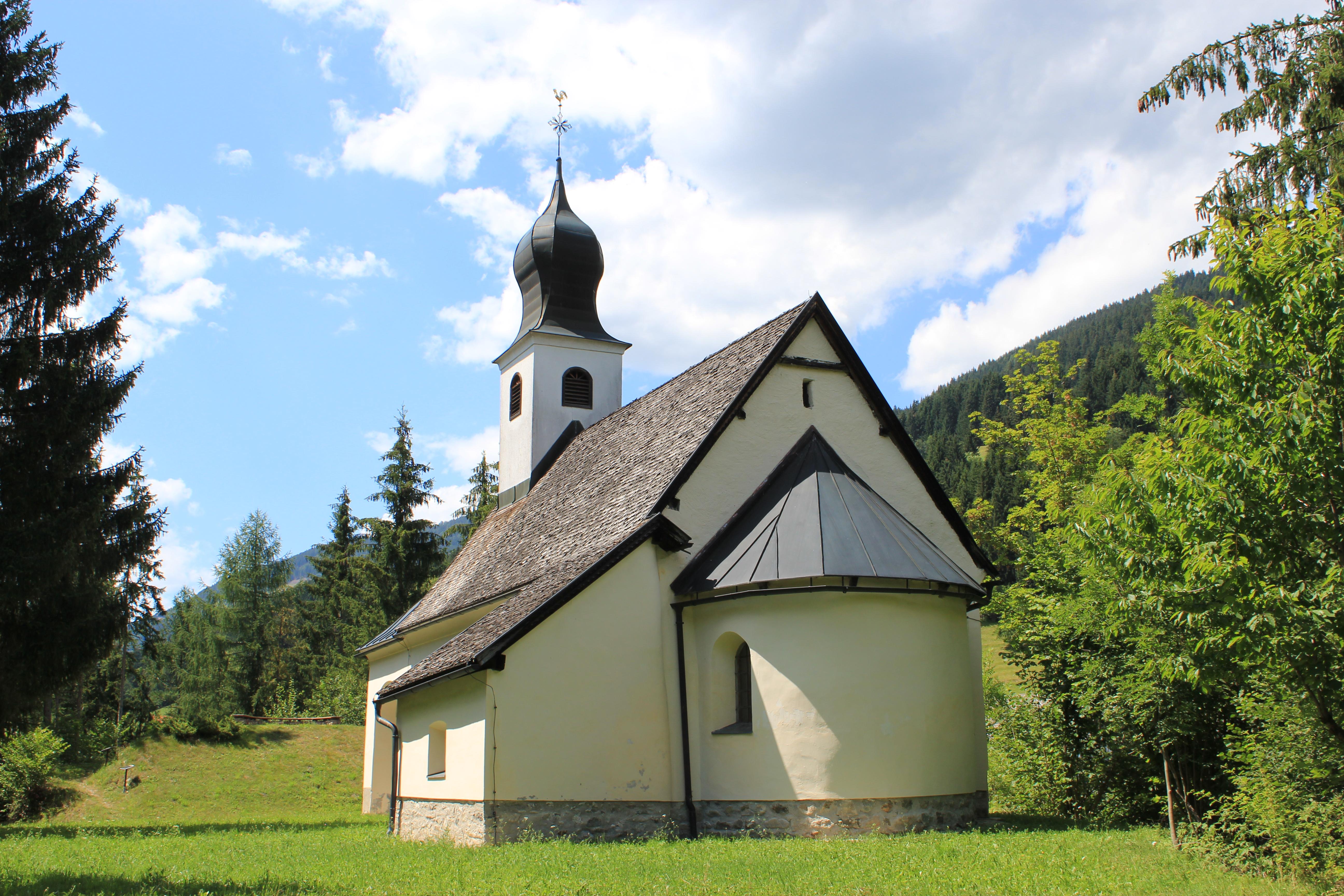 Church of Stresweg in the community of Irschen